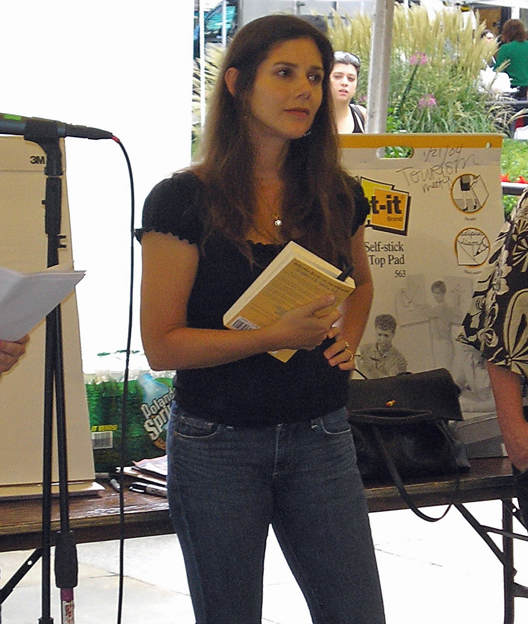 Ann Brashares by David Shankbone, New York City